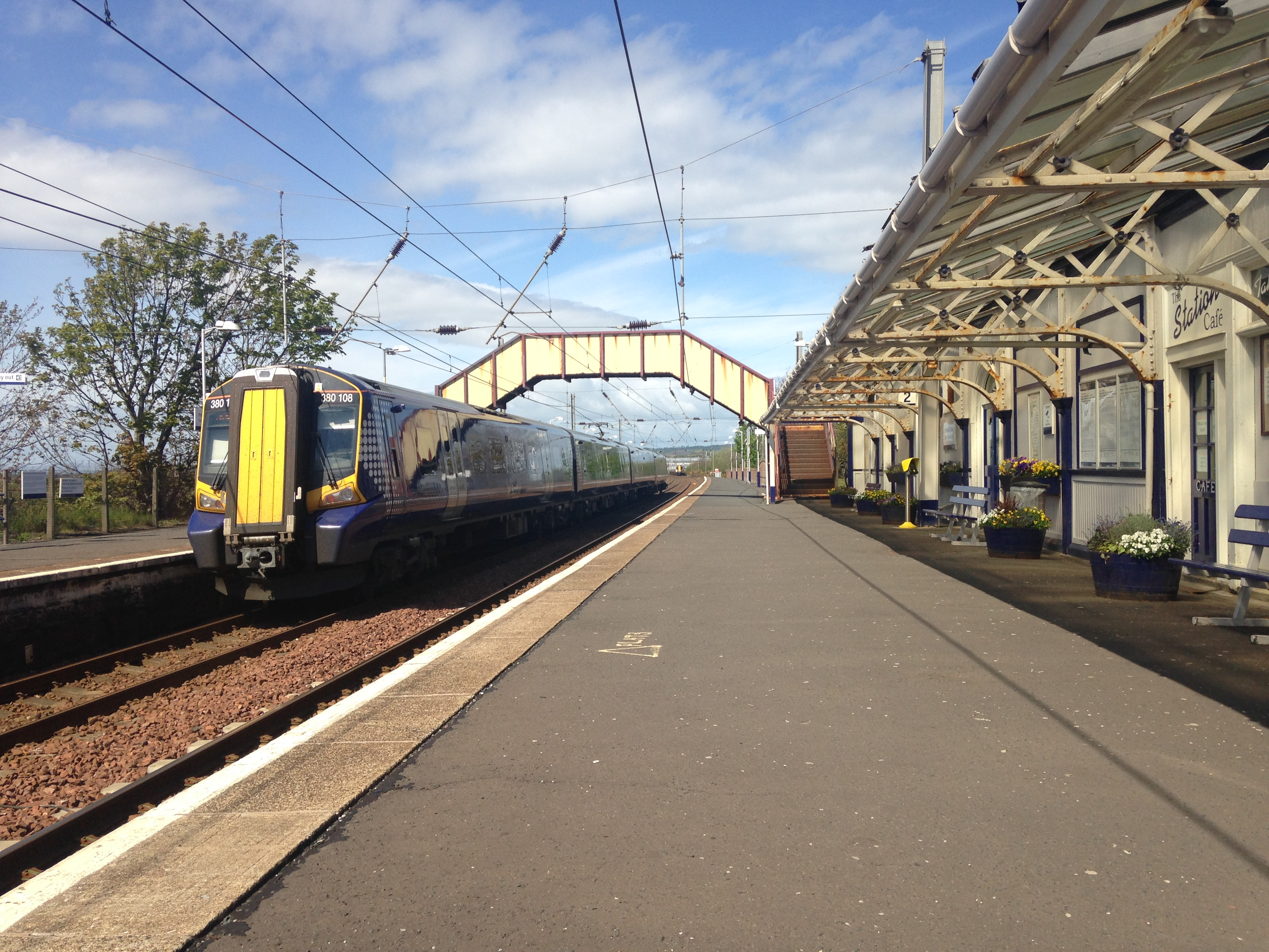 Prestwick Town Railway Station, with ScotRail 380108 to North Berwick sitting at Platform 1